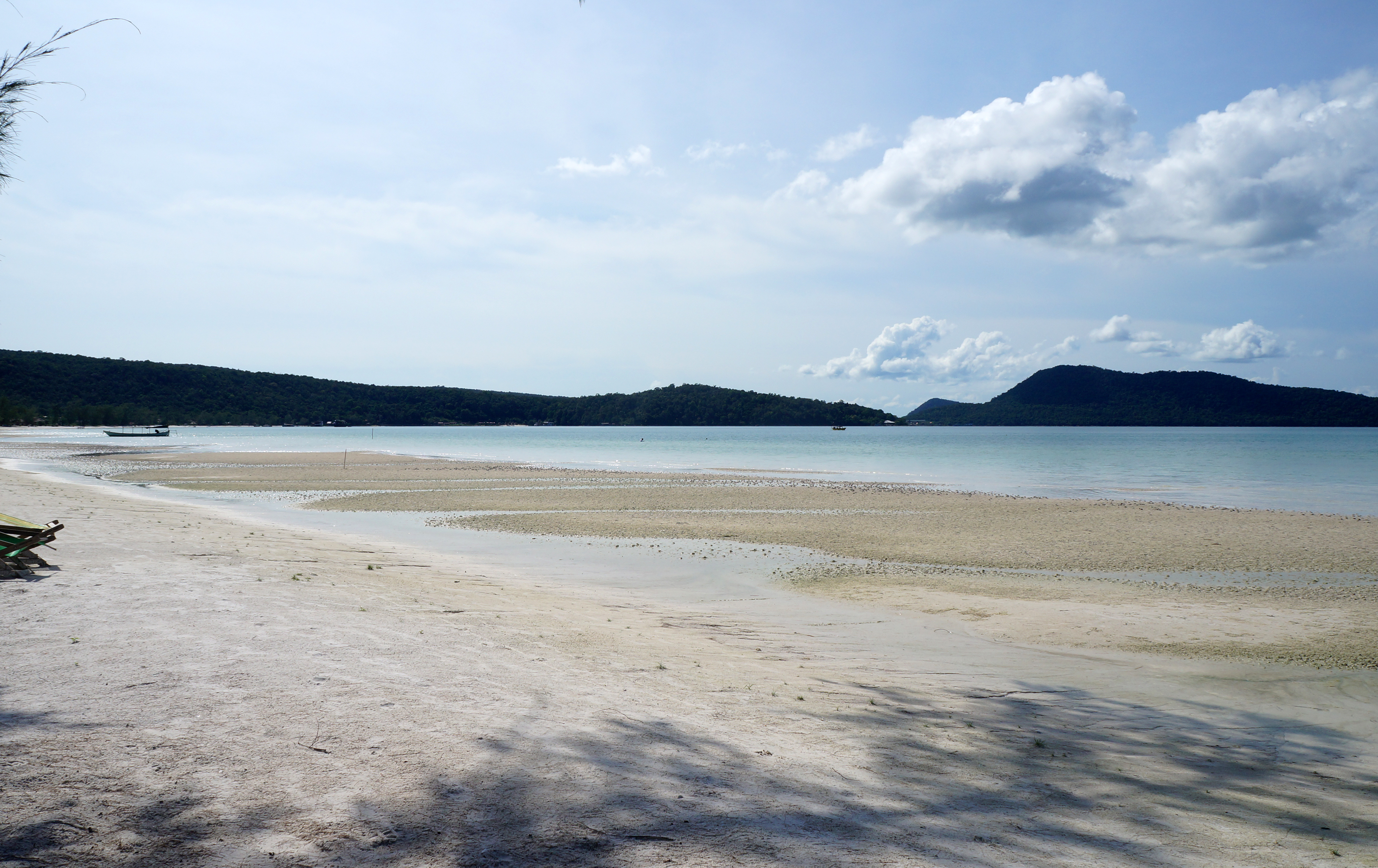 A photo of Saracen Bay Beach on the island of Koh Rong Sanloem in Cambodia Other information the photo shows the western part of the bay with the island's highest peak to the right.